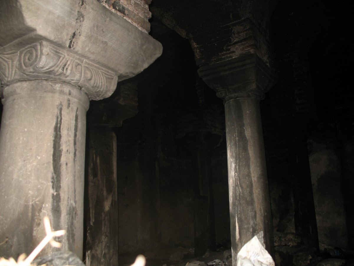 The Palace of Bucoleon, part of interior.